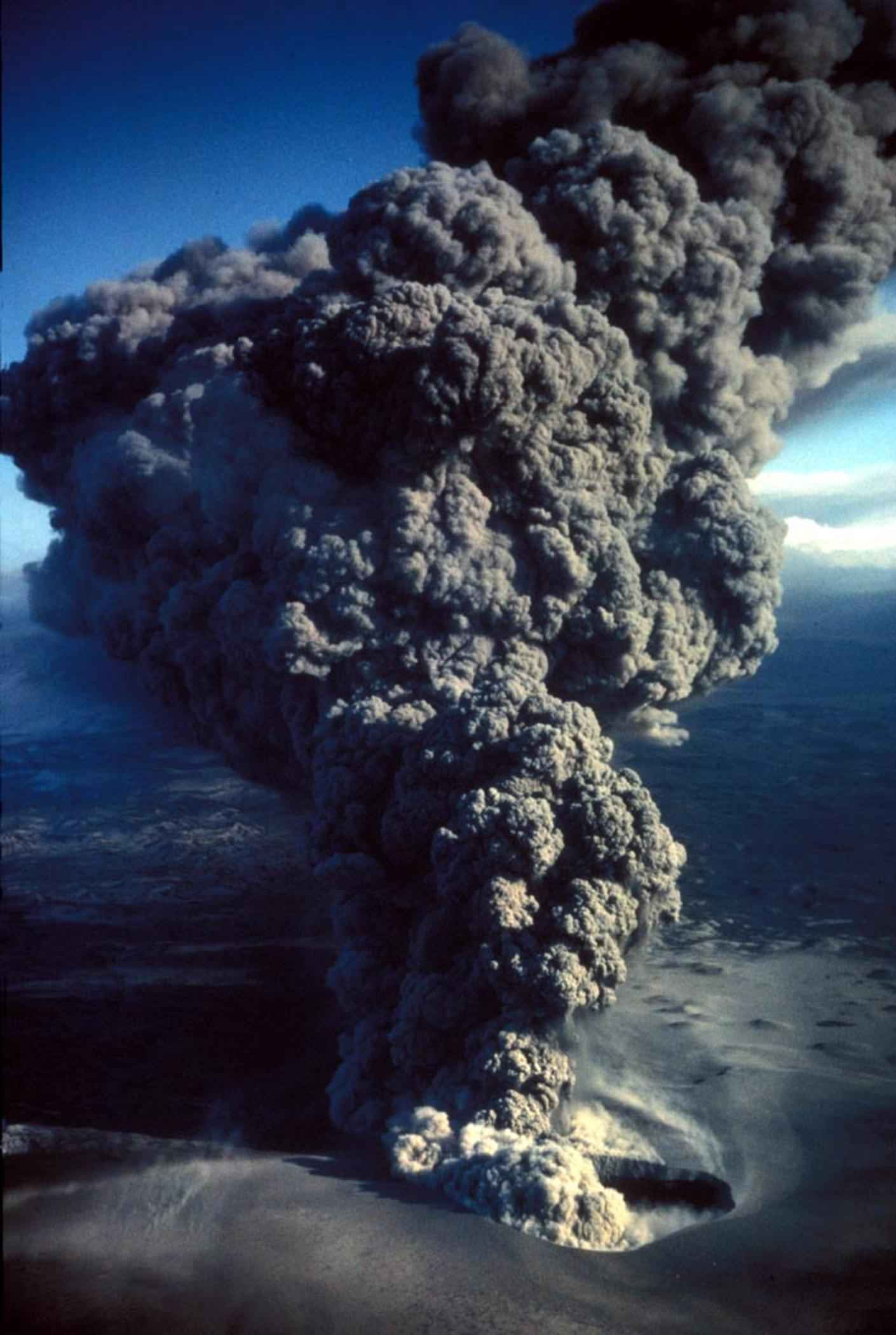 Image title: Aerial view of erupting and smoking volcano Image from Public domain images website